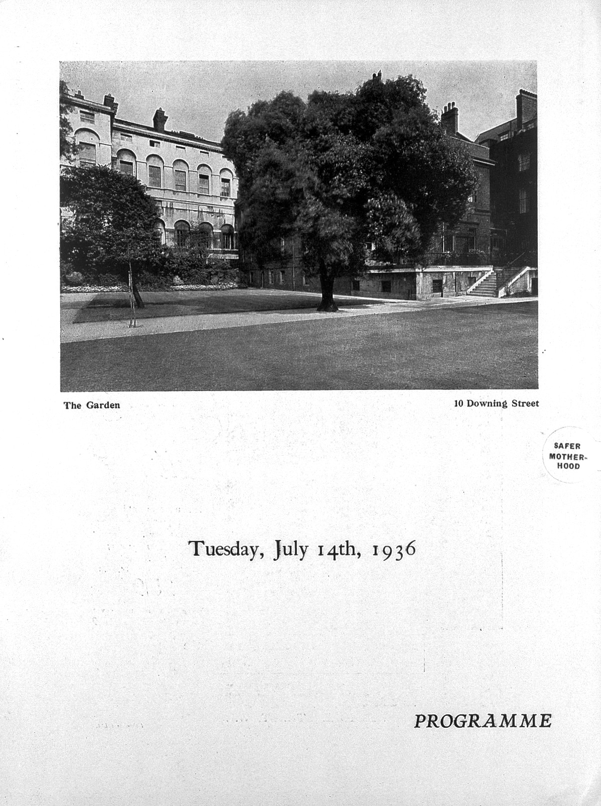 Programme for Don Cossack choir at 10 Downing Street. Archives & Manuscripts Keywords: cmac; cmac sa/nbtf: g22/2; cmac: sa/nbtf g22/2